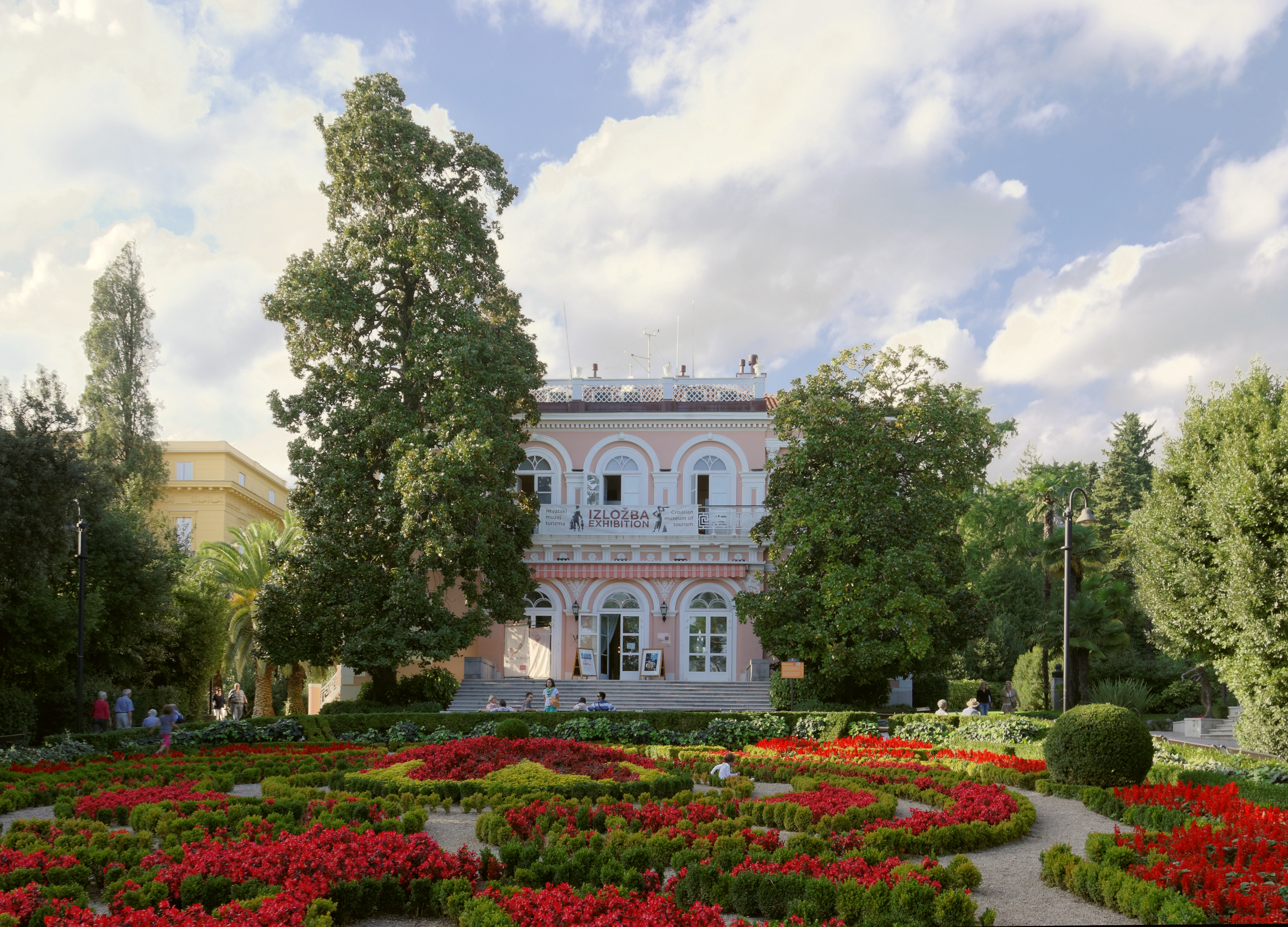 Croatia, Opatija, Villa Angiolina